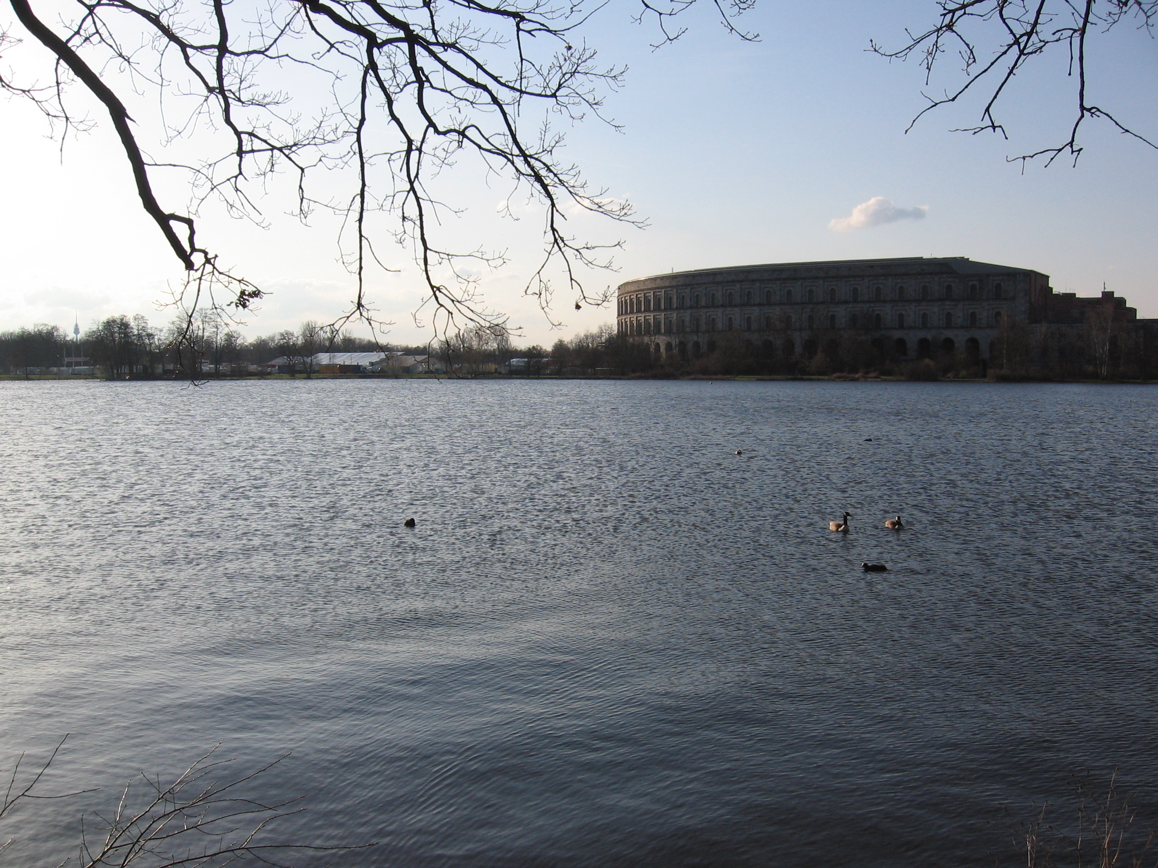 Image of Dutzendteich (Nuremberg, Germany), in the background the "Kongresshalle" (Nazi party rally grounds)